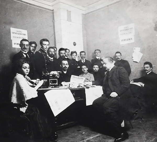 Vladimir A. Anzimirov with colleagues in the news room of the "Kopeika" newspaper aprx 1916